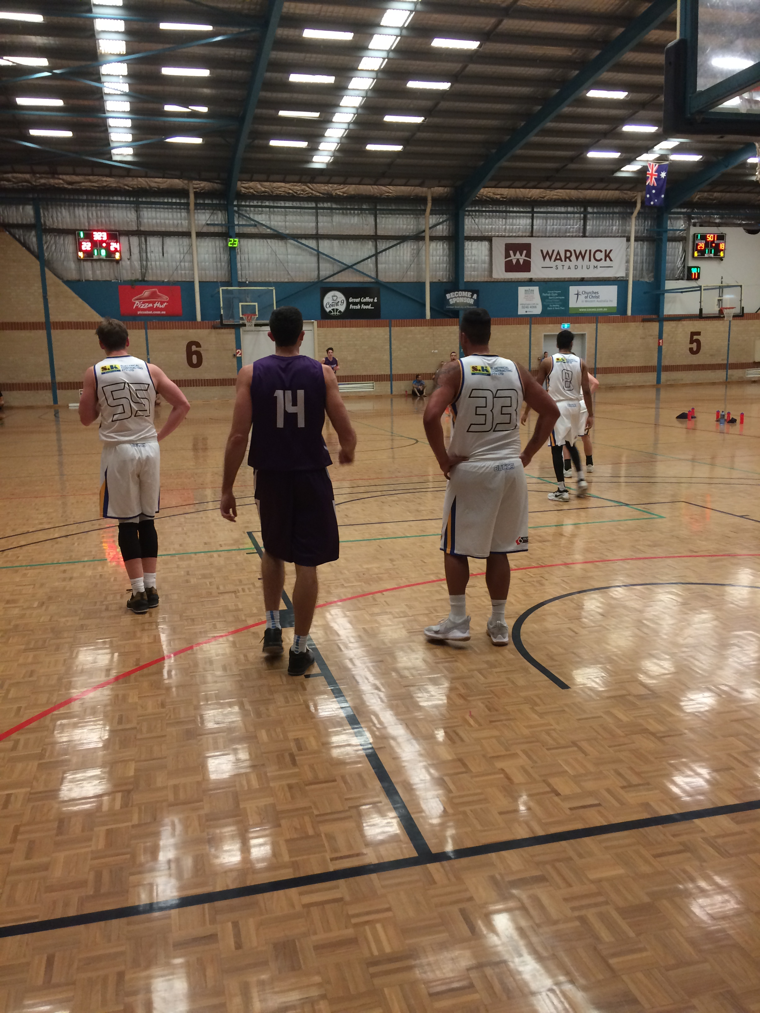 Jarrad Prue at the 2018 SBL Pre-Season Blitz